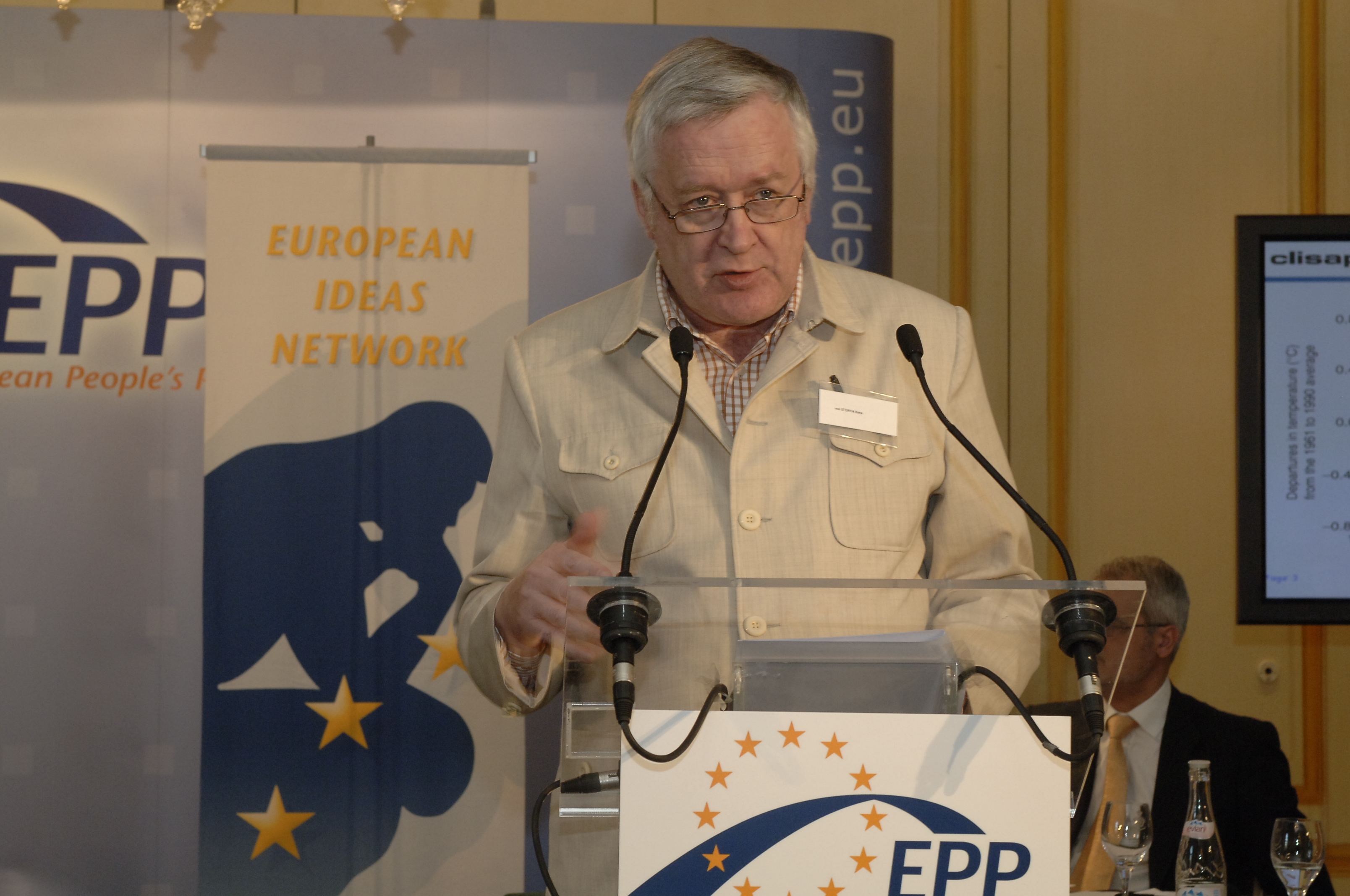 EPP CONVENTION ON CLIMATE CHANGE IN MADRID (6-7 FEBRUARY 2008)